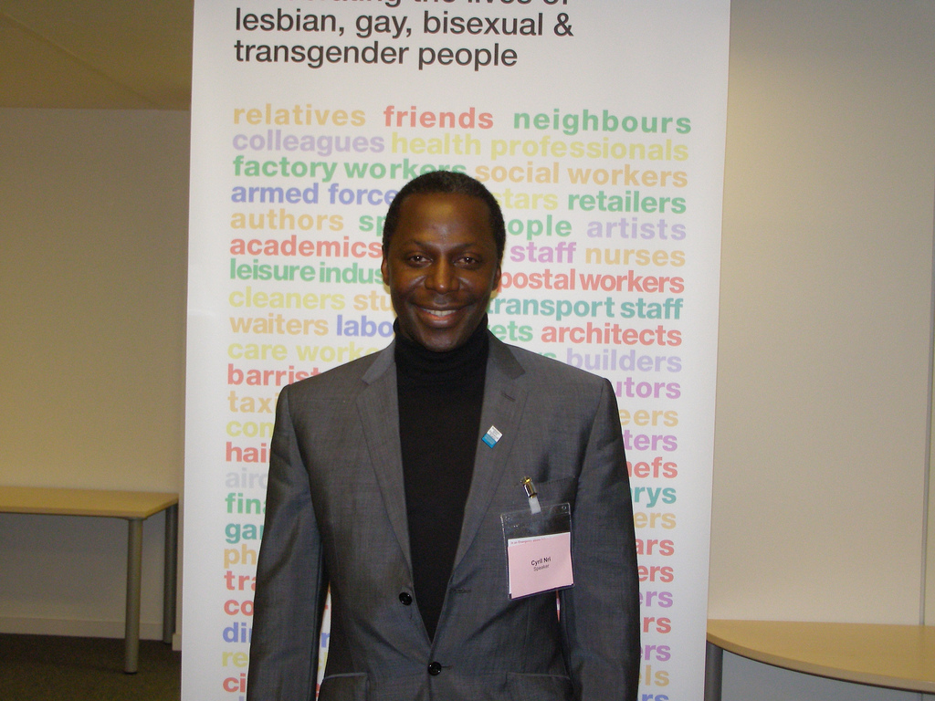 Actor Cyril Nri, patron of LGBT History Month UK at the 2005 launch - November 2004